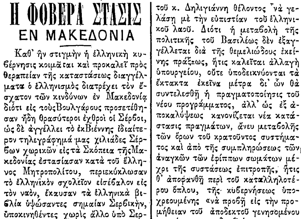 A fragment from the Greek newspaper “Εμπρός” (“Forward”) published on November 25, 1896. Written in katharevousa with polytonic orthography.